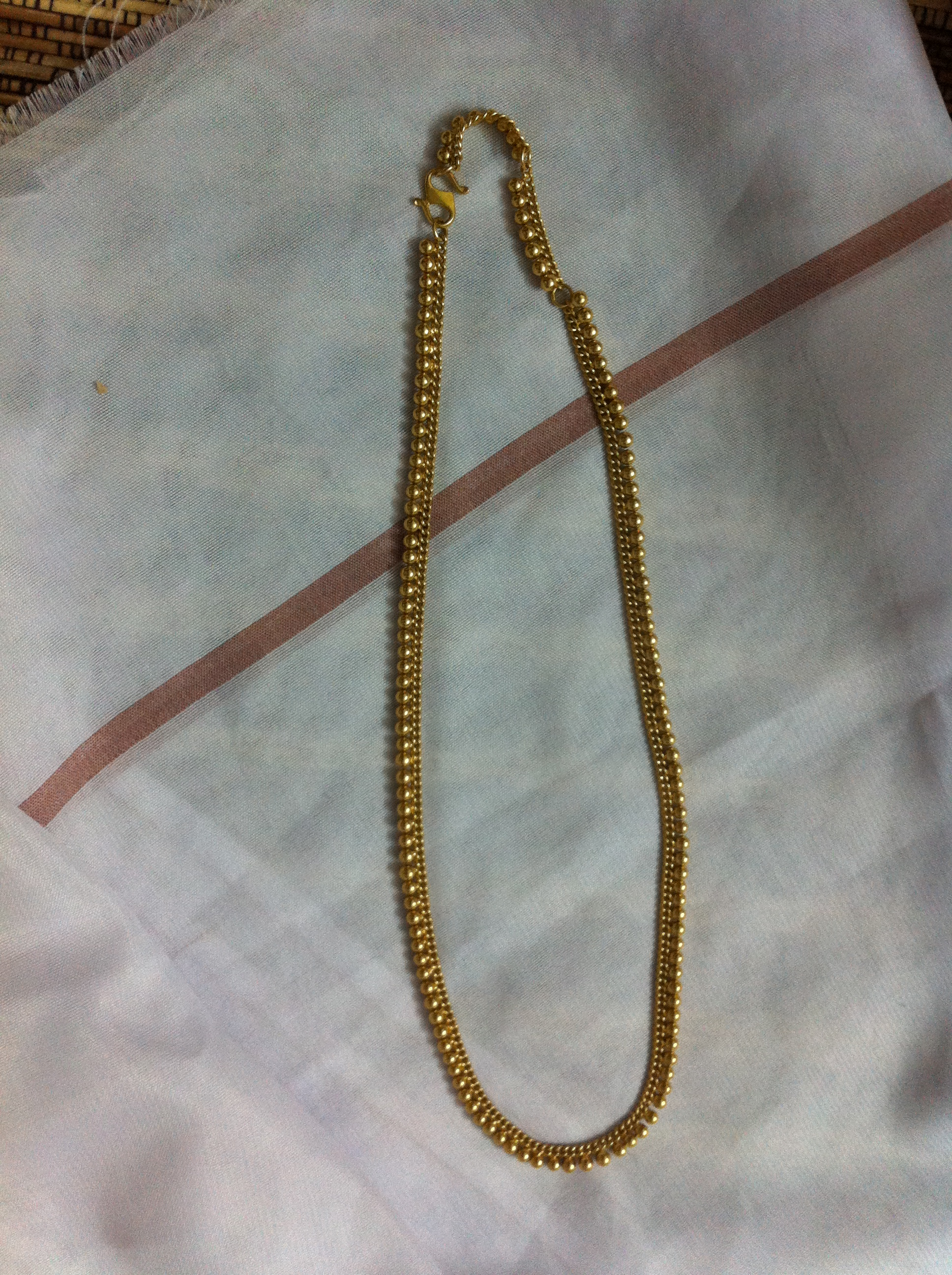 Jewellery of Tamil Nadu